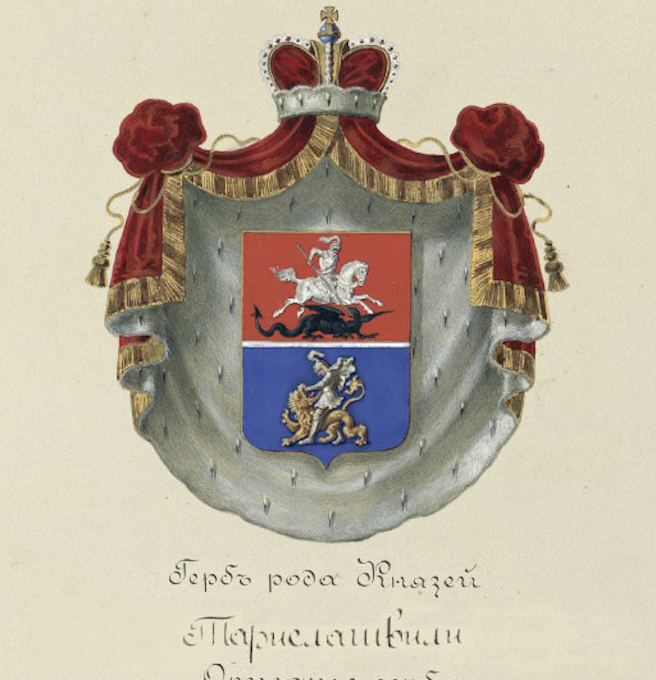 Arms of Tarielashvili family